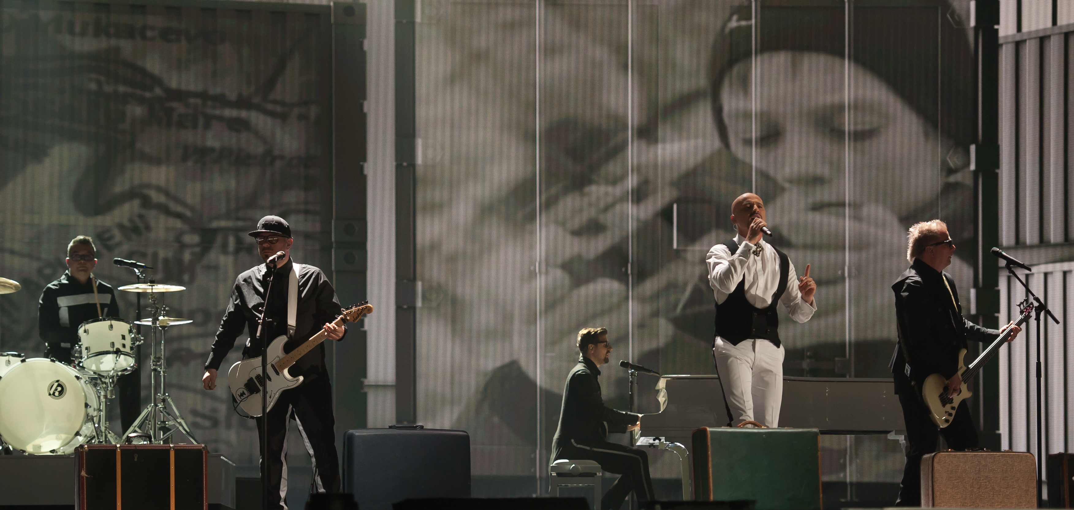 Eurovision Song Contest Vienna 2015: Voltaj